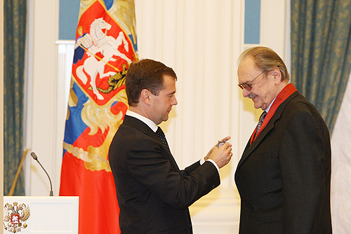 THE KREMLIN, MOSCOW. Ceremony presenting state decorations. Theatre and film actor Yuri Yakovlev received the Order for Services to the Fatherland II class.